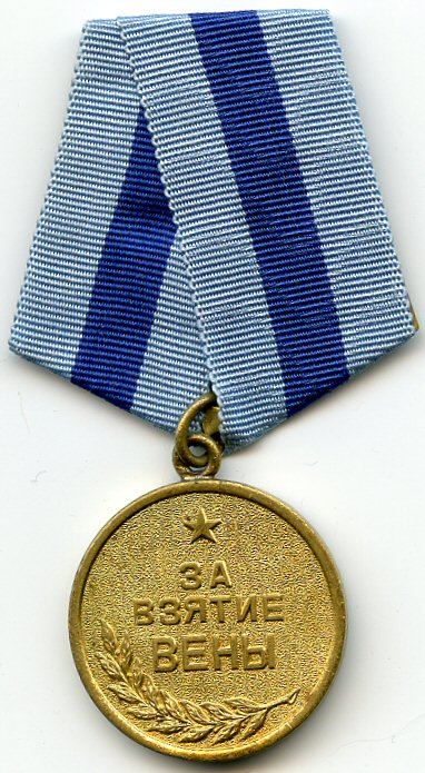 Obverse of the Soviet WW2 campaign medal "For the Capture of Vienna (1945)